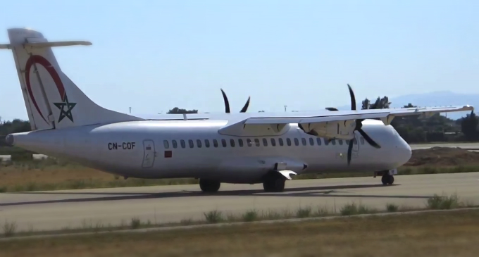 ATR 72-600 Royal Air Maroc Express